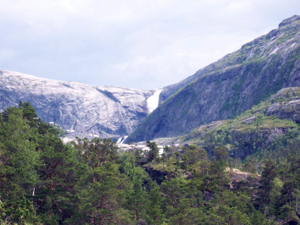 Søtefossen waterfall in the village of Kinsarvik, Ullensvang Norway